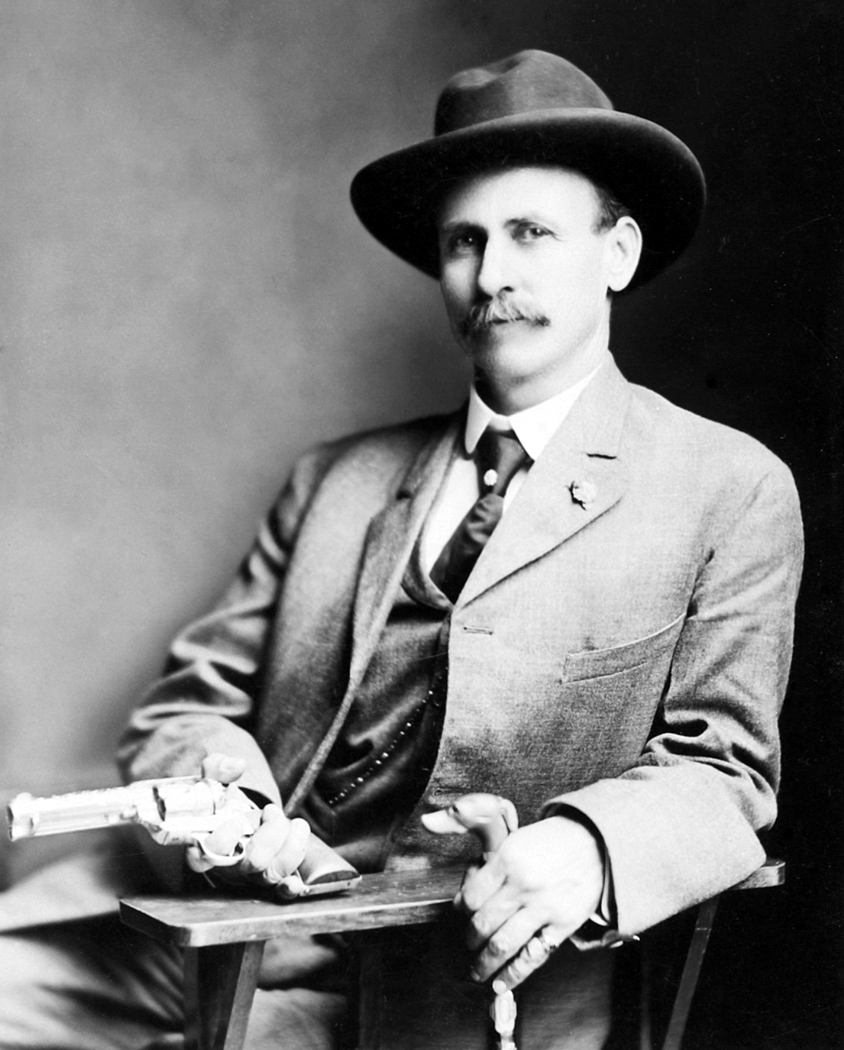 Charles A Siringo, sitting with cane & gun